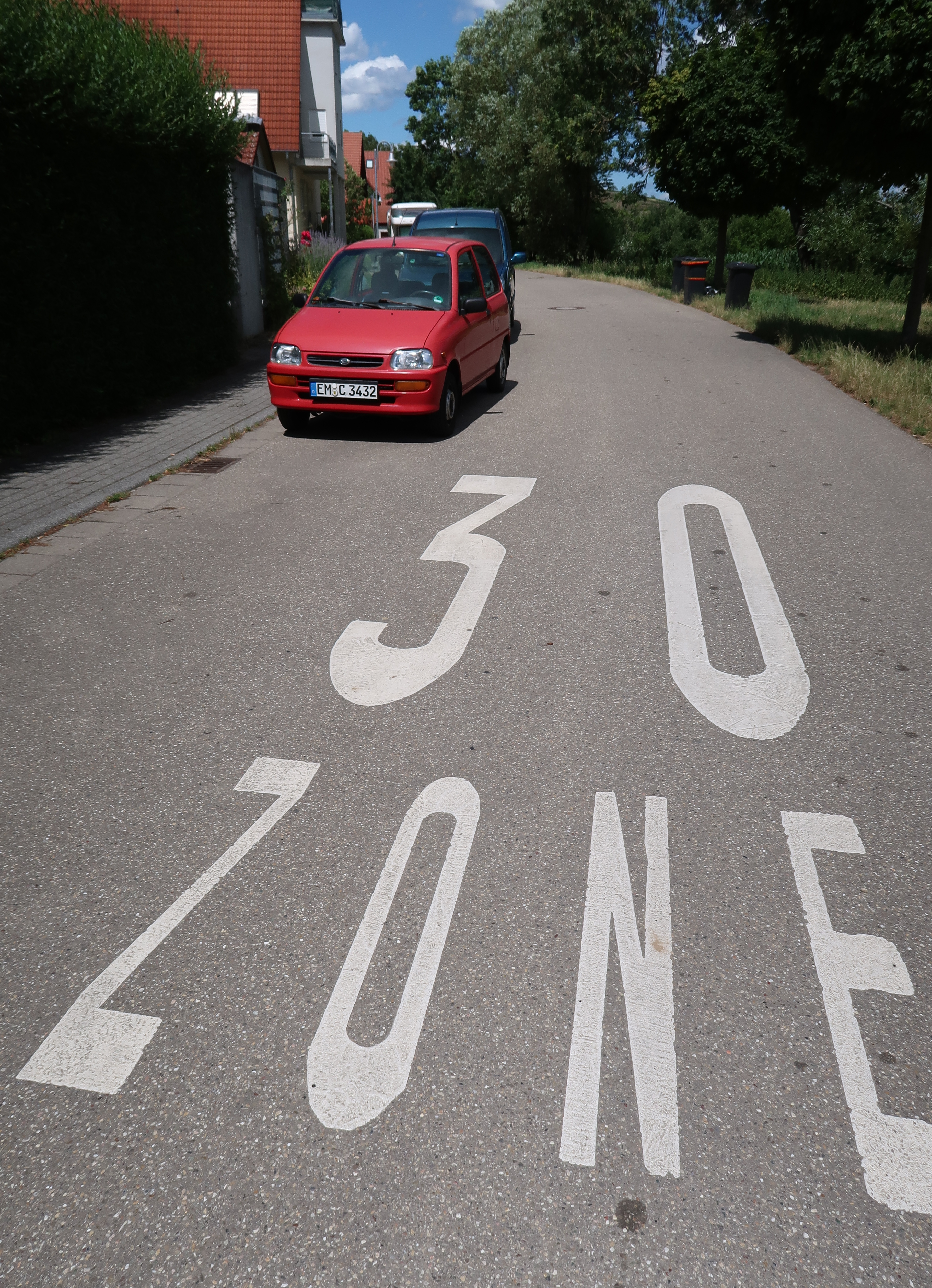 30 km Zone painting on a residential street in Germany